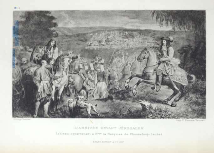 Painting by Arnould de Vuez, in 1674, of ambassador Charles Marie François Olier, marquis de Nointel entering Jerusalem. Published by Albert Vandal in 1900